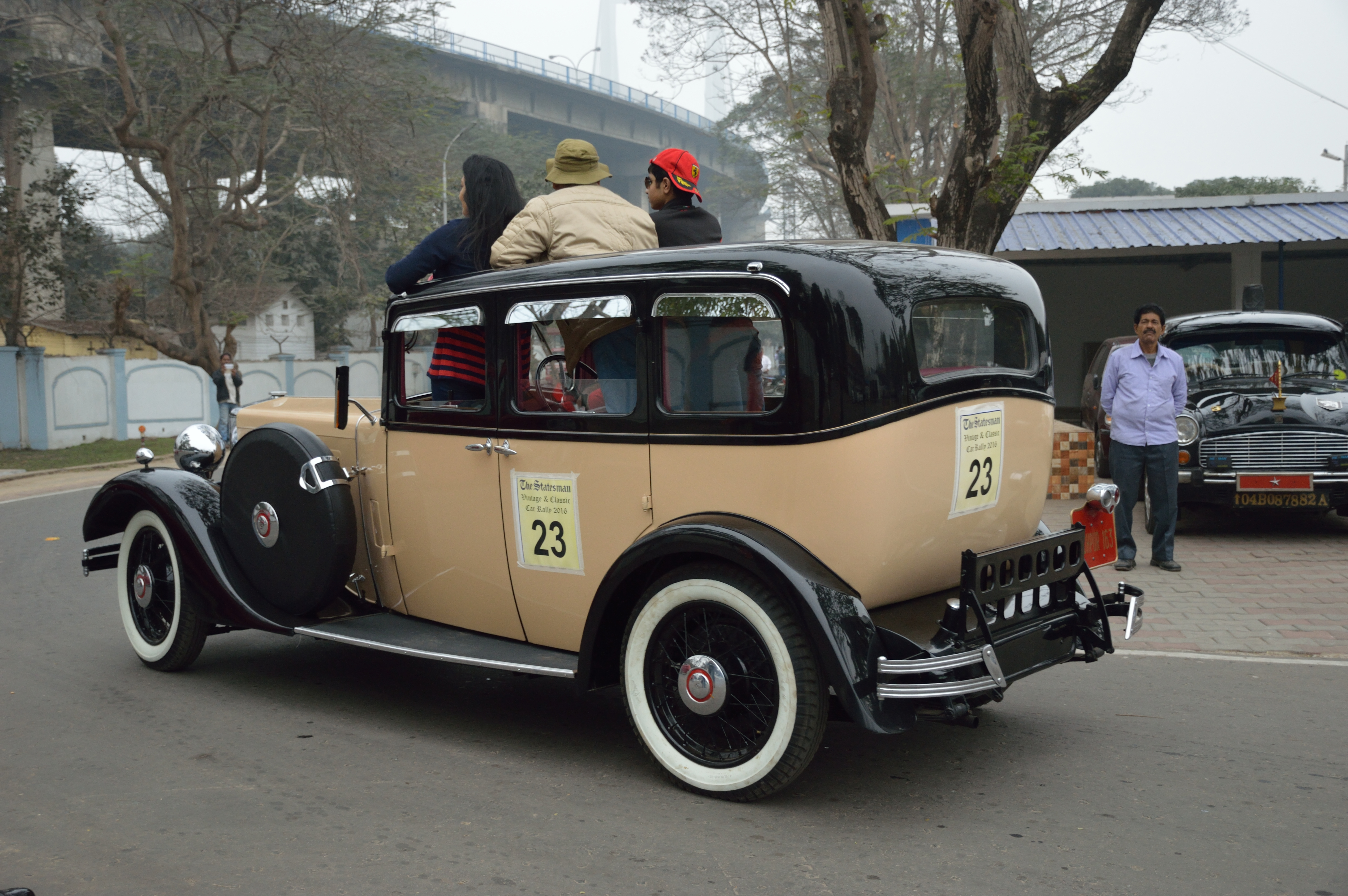 This car was exhibited and took part during ‘The Statesman Vintage & Classic Car Rally 2016’at the Eastern Command Sports Stadium of Fort William, Kolkata.The rally was held at the morning on Sunday, 31 January 2016 at the ECS Stadium, where 196 entrants were registered with cars and two-wheelers manufactured from 1906 to 1971. This one day festival held on the last Sunday of January 2016 in Kolkata since 1968 with full of period costume and cultural period pieces. This car is owned by M Khimji and driven by Prasun Hajra.